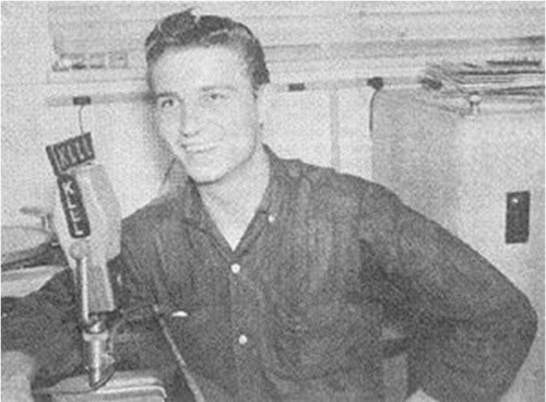 Waylon Jennings hosting his show in KLLL radio in Lubbock, Texas